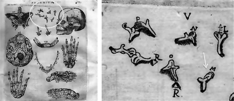 Image of the ear ossicles as per Ingrassia